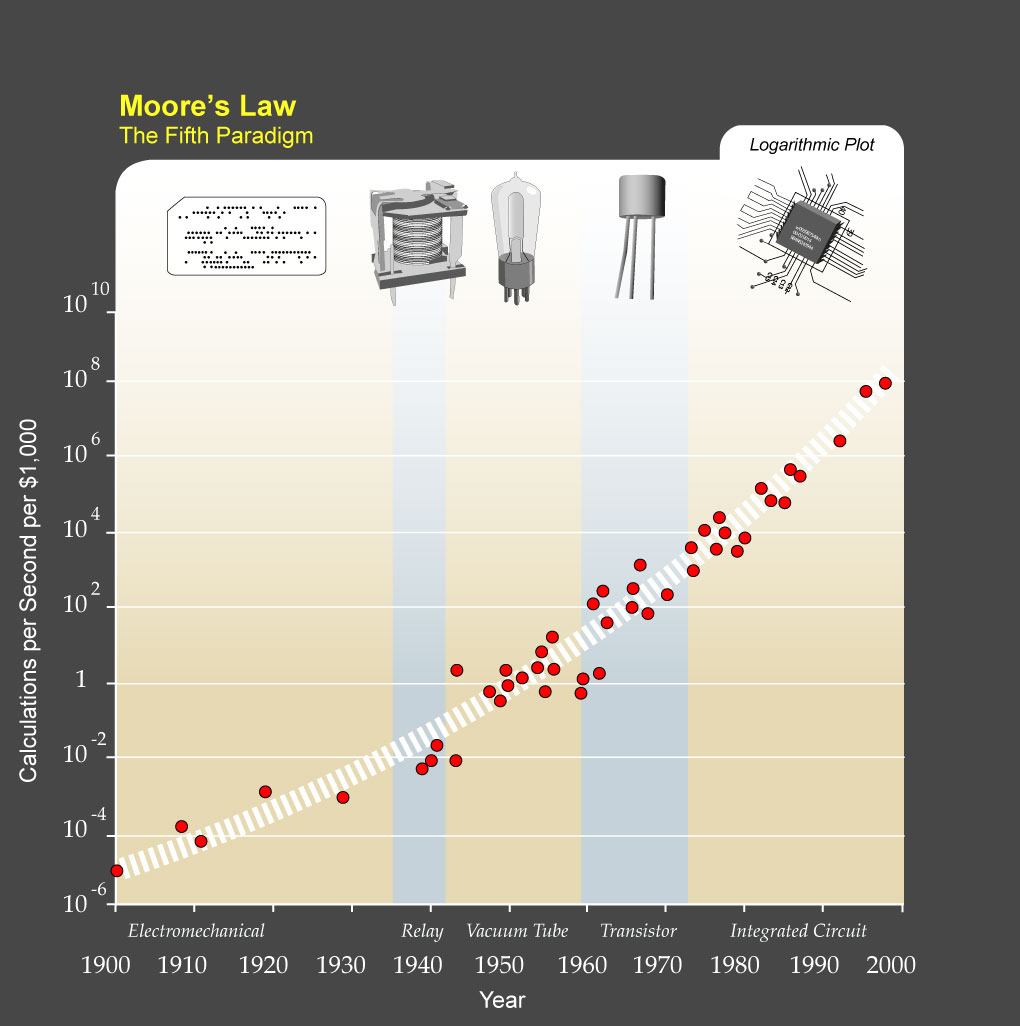 Moore's Law, The Fifth Paradigm.